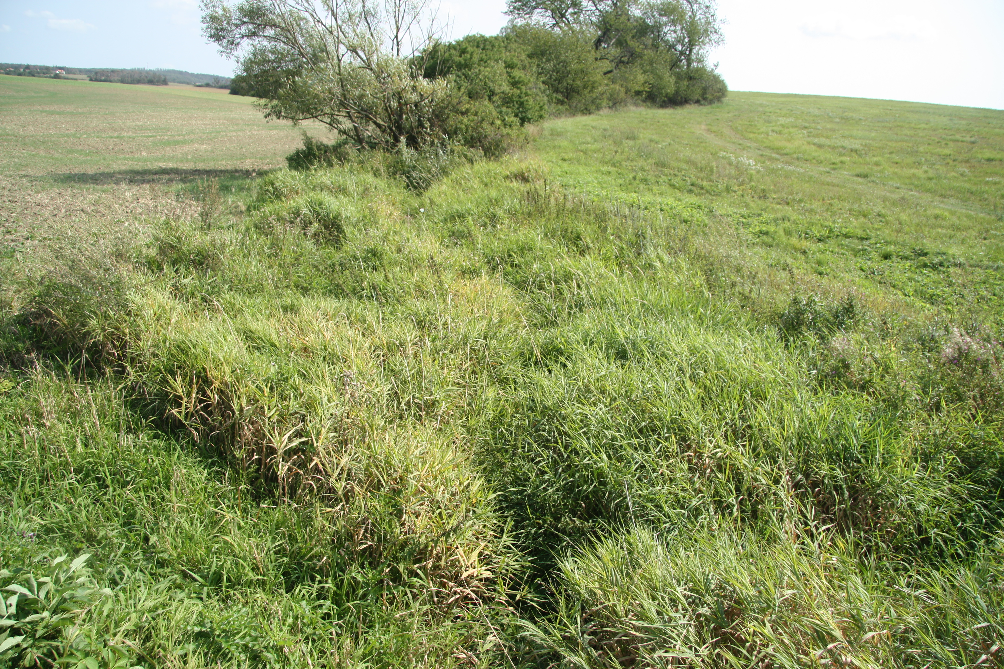 Stream Ostrý potok near Jaroměřice nad Rokytnou, Třebíč District.